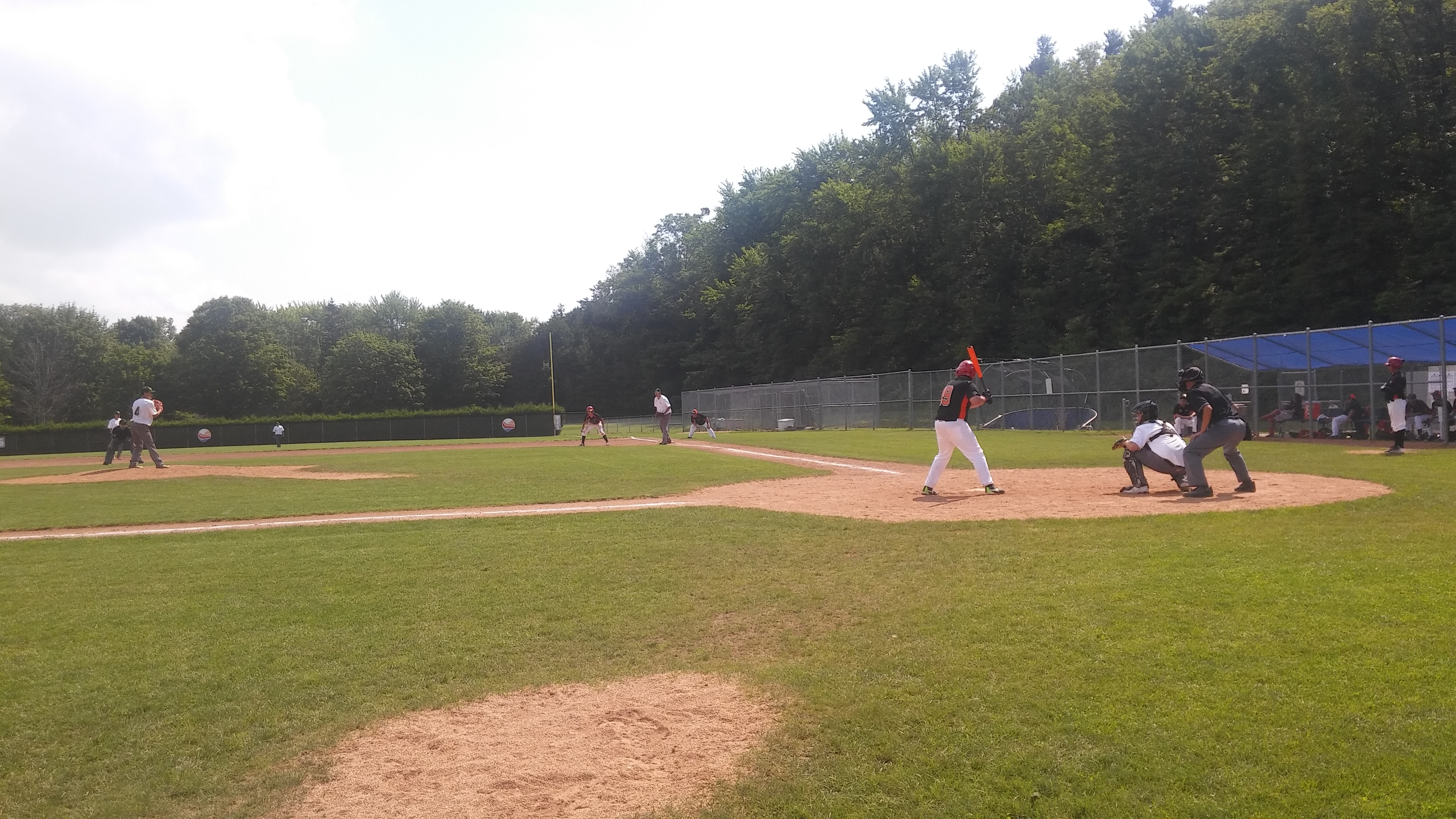 2017 North American Indigenous Games under-17 male baseball between Eastern Door & the North (Quebec), batting, and Saskatchewan, fielding, at Dan Lang Field in University of Toronto Scarborough, Toronto